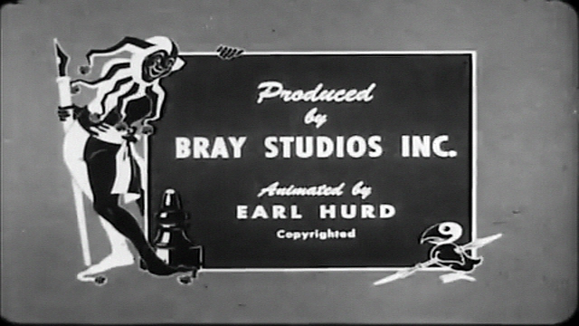 Brand of Bray Studios (Bobby Bumps' Fourth -1917)